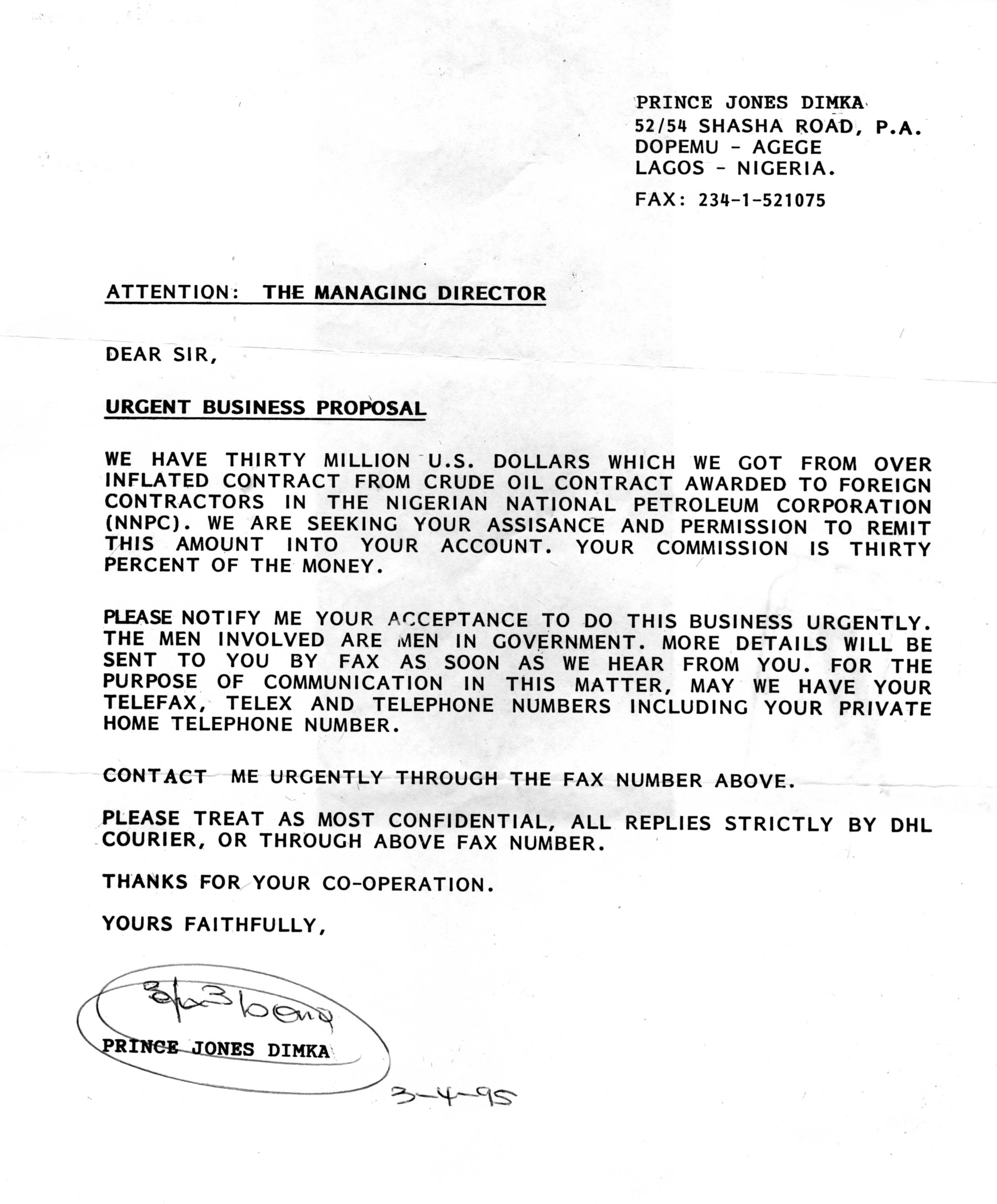 Example of "Nigerian scam", 1995